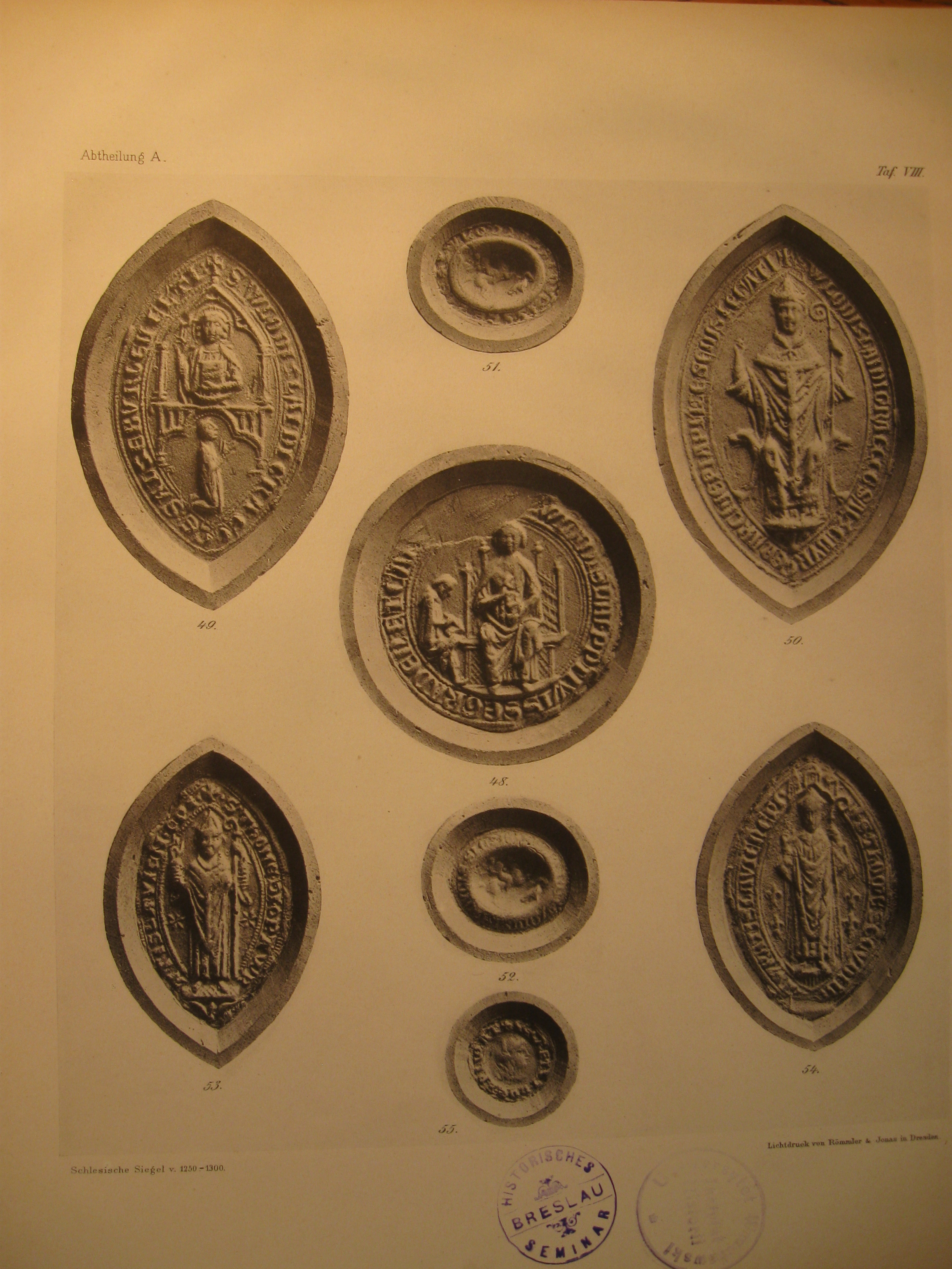 Seals of Wladislaus duke of Silesia